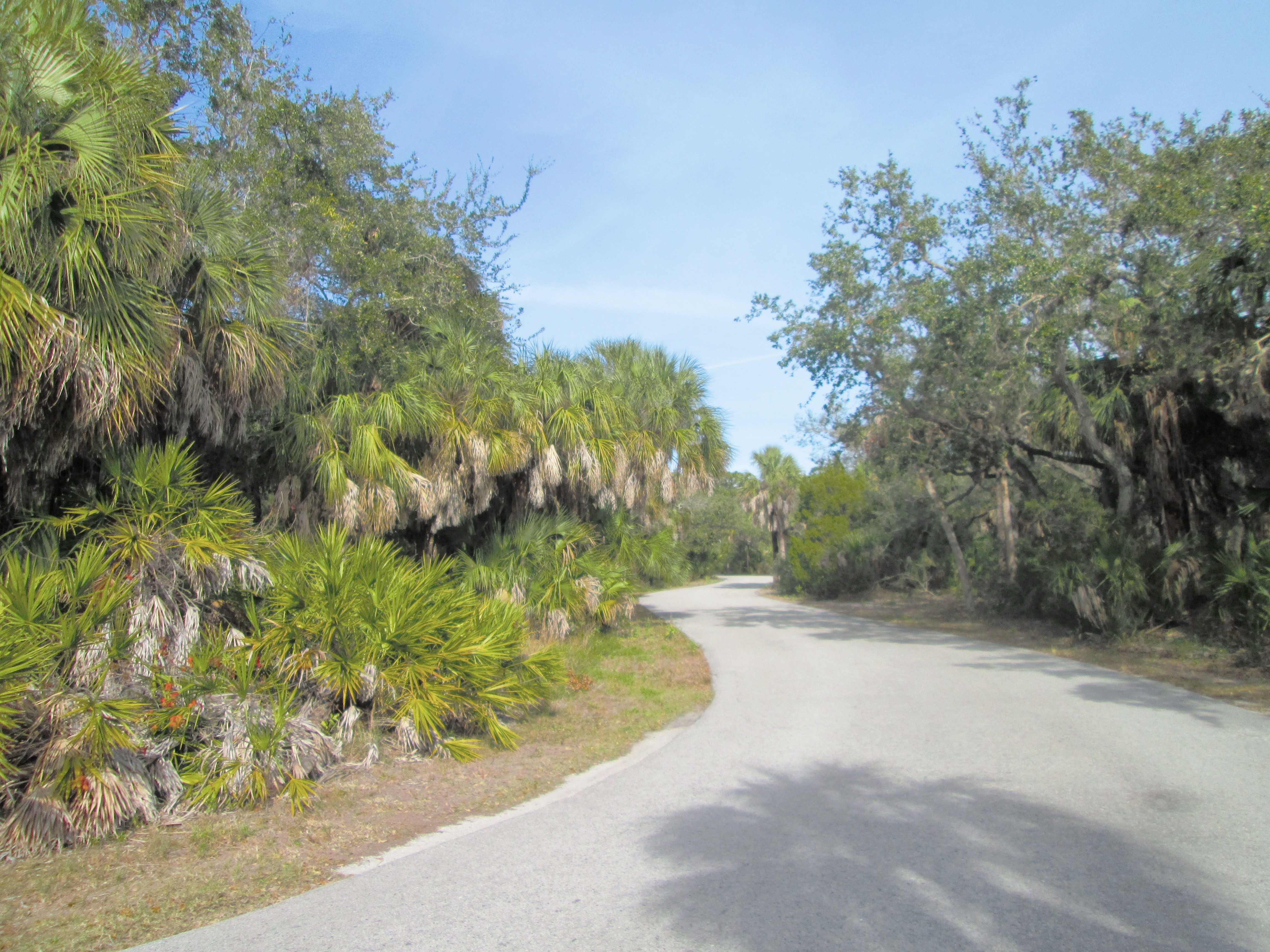 A side bike path at Fort De Soto, heading towards the Arrowhead Picnic and Fishing area.